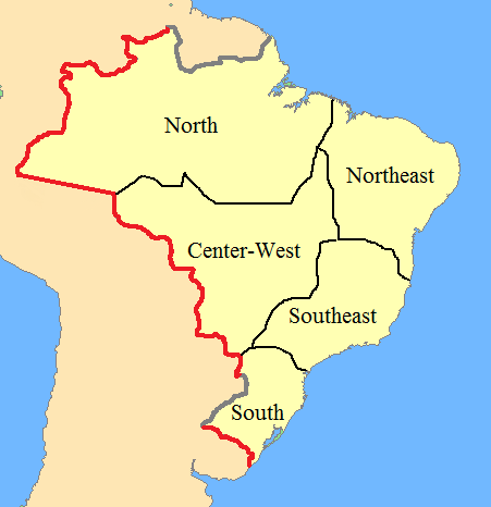 International borders of Brazil in 1889. Locator map of Brazil, based on public domain material from demis.nl